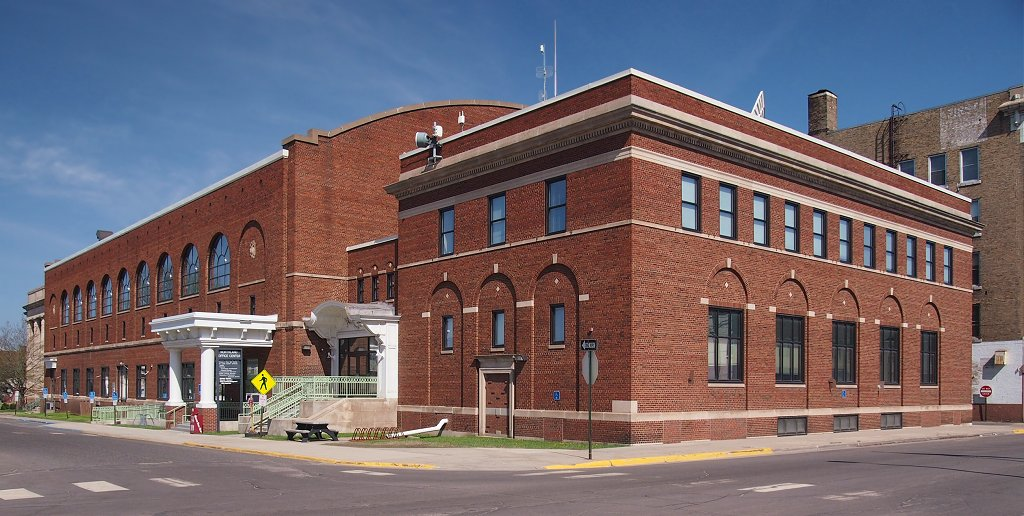 Virginia Recreation Building, 305 1st Street S, Virginia, Minnesota, USA. Viewed from the southeast.